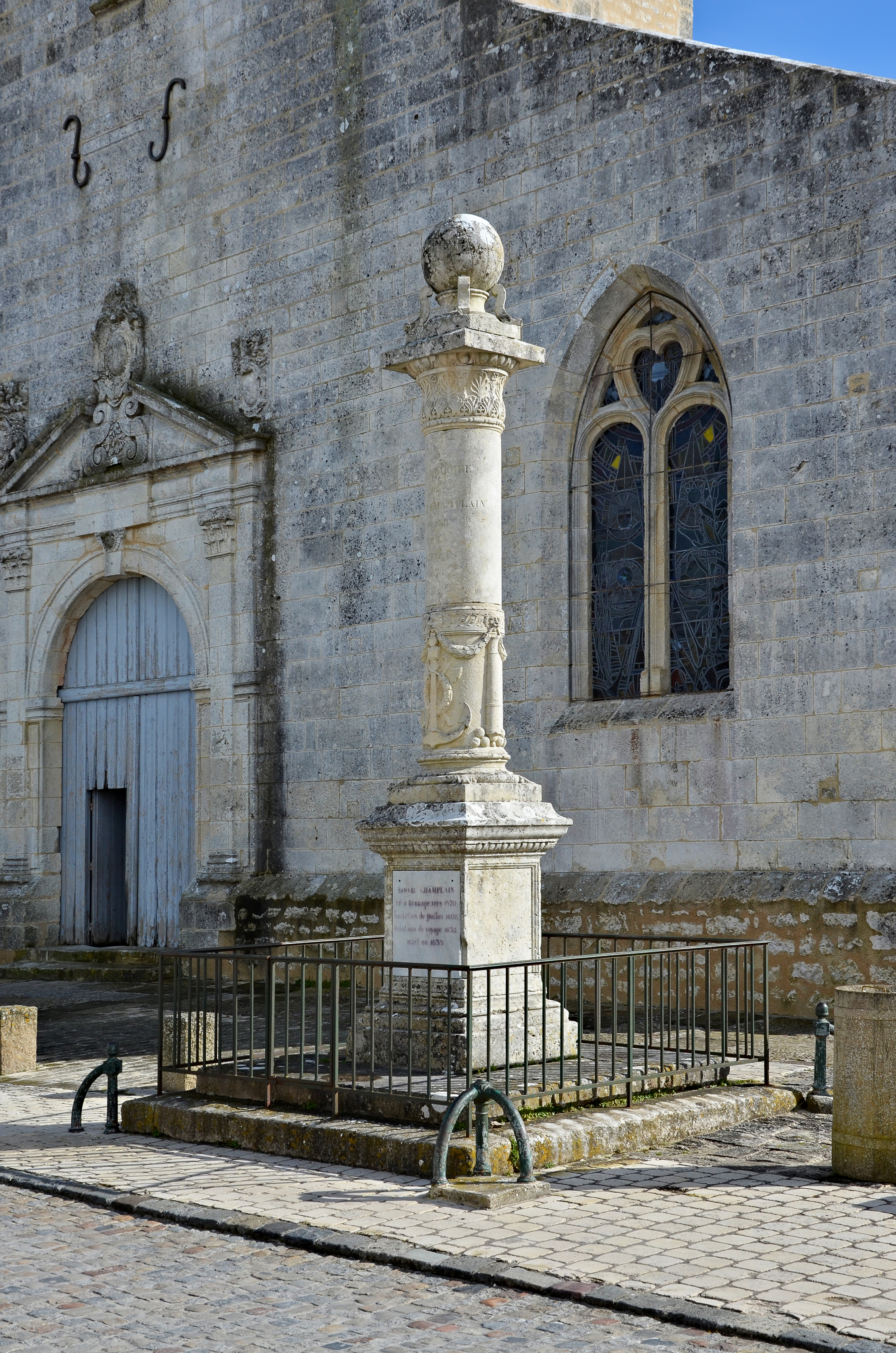 Monument to Samuel de Champlain, rue du Québec, Brouage, Charente-Maritime, France. .